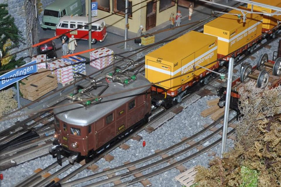 Buco tinplate model railway layout from the Bernese mountain railway company Bern–Lötschberg–Simplon (BLS) in O gauge in the summer of 2012 and 2013 at the temporary Swiss mountain railways special exhibition in the Hünegg Castle by Lake Thun in the Bernese Oberland.